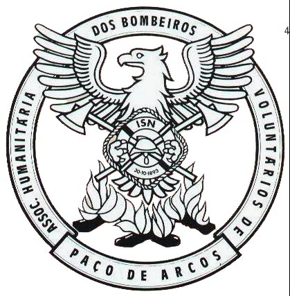 AHBVPA-Emblema04